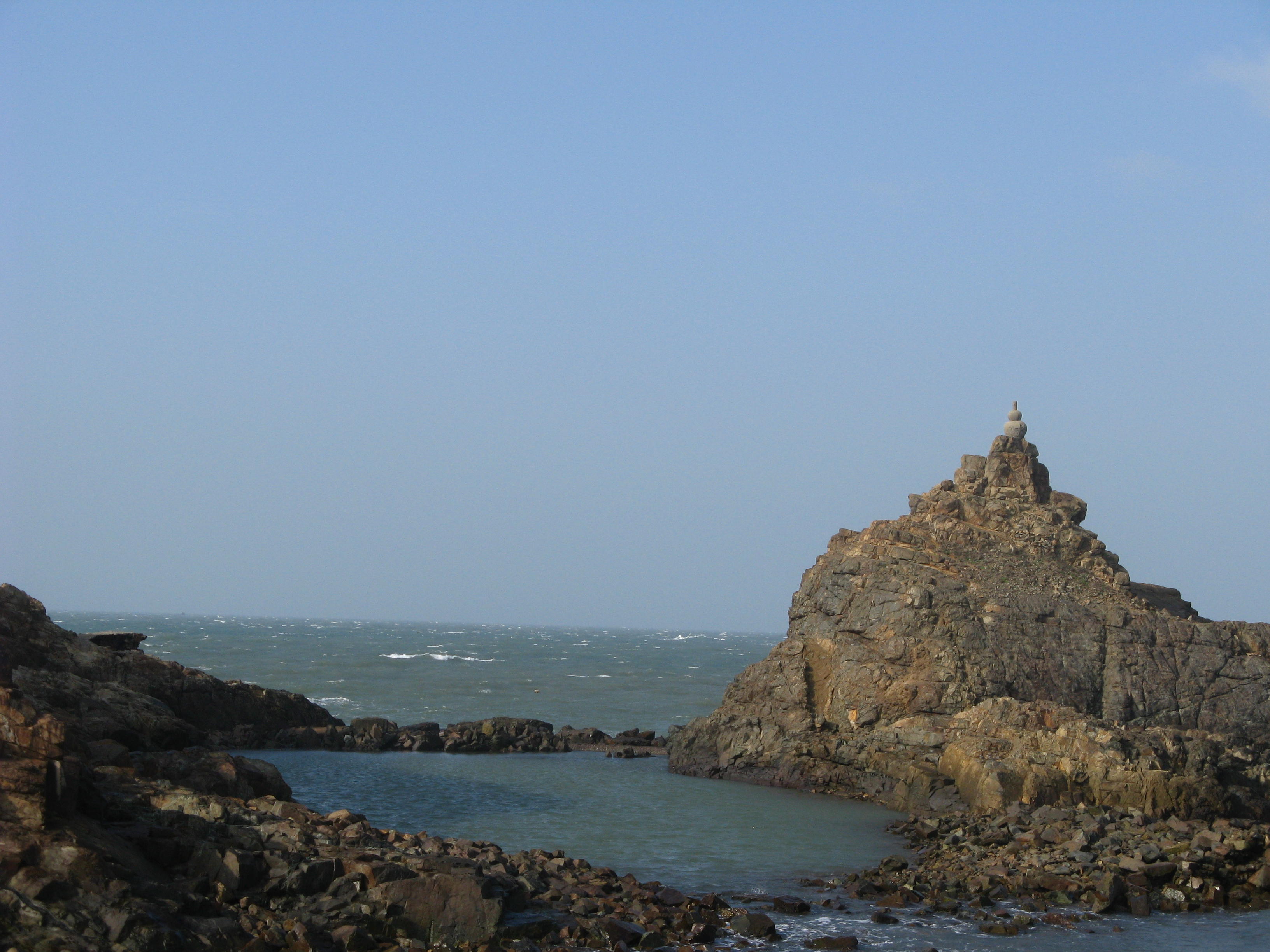 Huluao